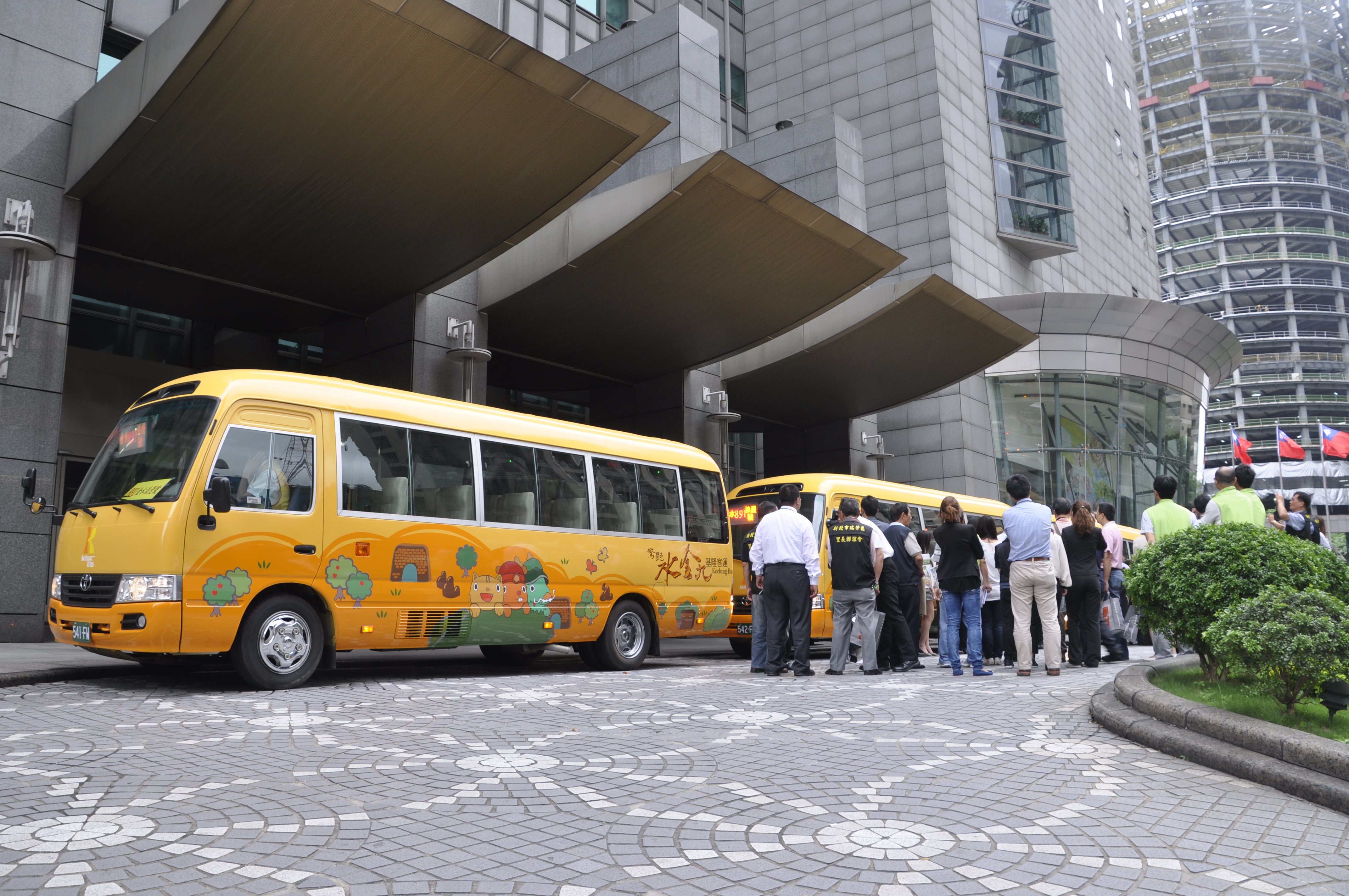 891 Goldwater (Jin'guashi-Shuinandong) Romantic Shuttle Bus, Tour Taiwan